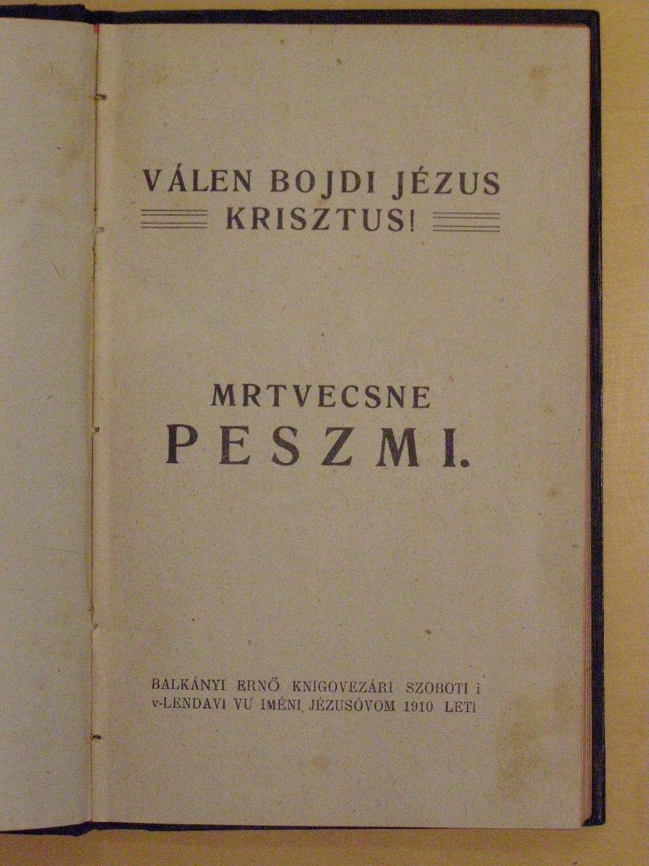 Mrtvecsne peszmi (Dead hymns), by János Zsupánek of Šalovci in 1910